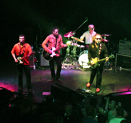 United States rock band The Minus 5 performing in The Georgia Theater in Athens, Georgia.